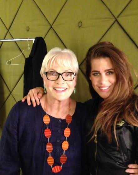 Rowena Wallace & Kristylee Waine